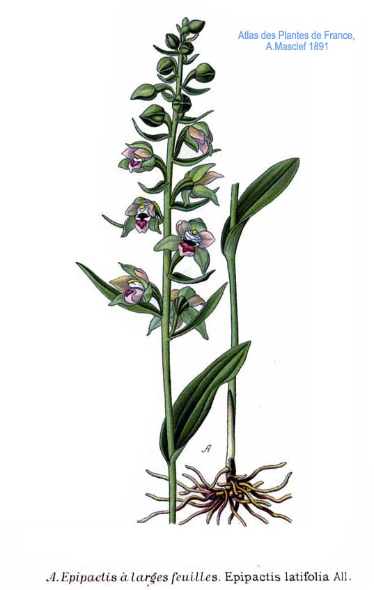 Epipactis helleborine All.